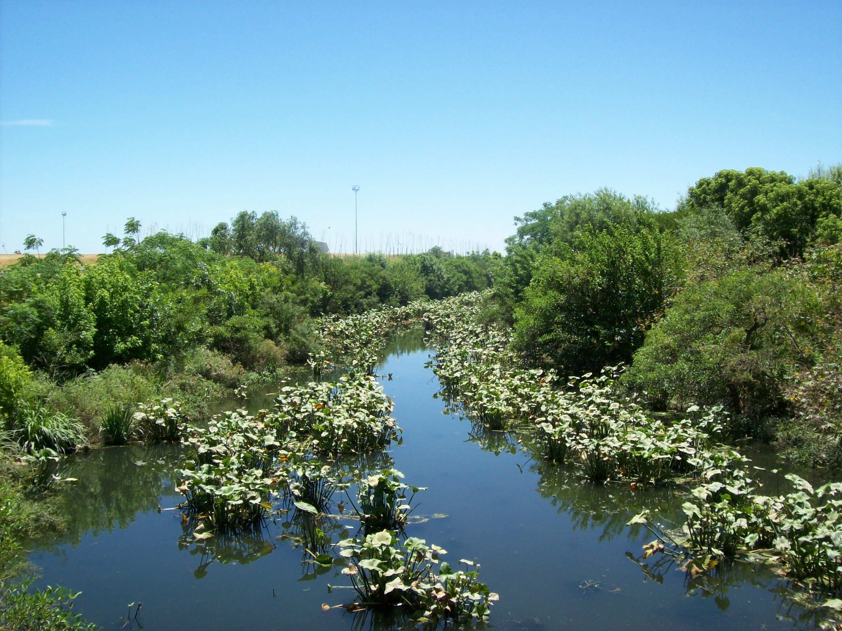 Raggio Stream as seen from the bridge. This stream is on the northern border between Buenos Aires city (right) and Buenos Aires province (left), Argentina.